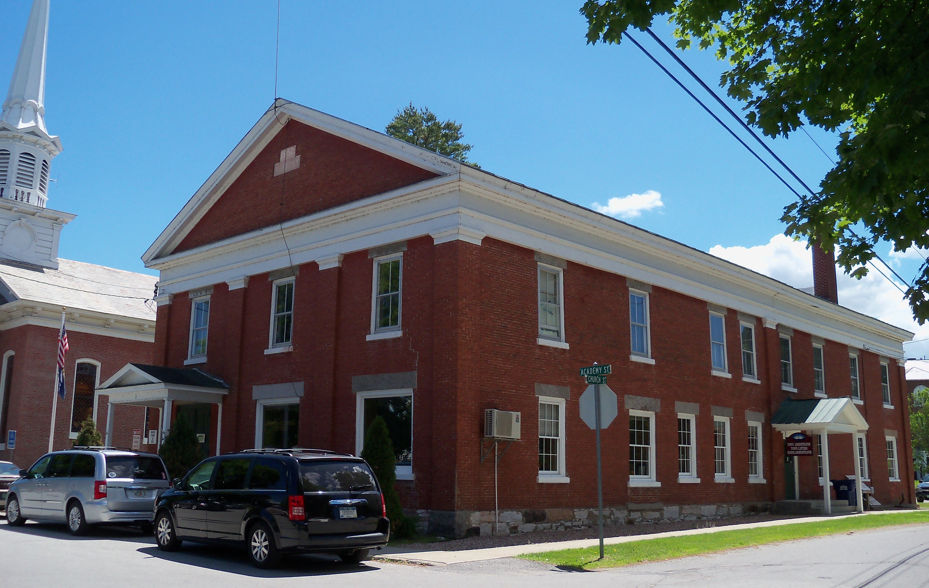 Town Hall in Swanton, Vermont, USA.